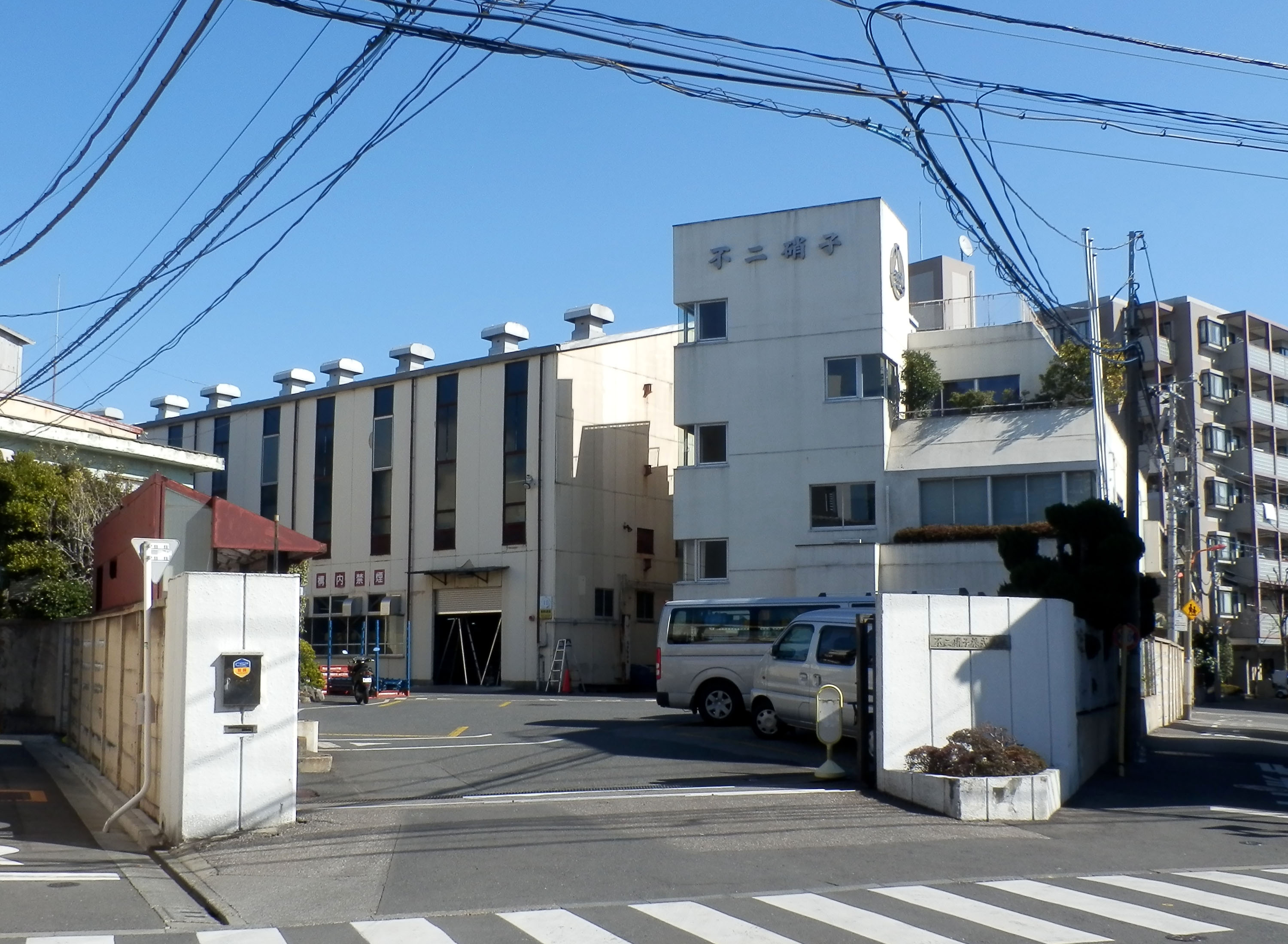 Fuji Glass (Glass factory in Tokyo, Japan)